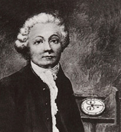 Pierre_Le_Roy